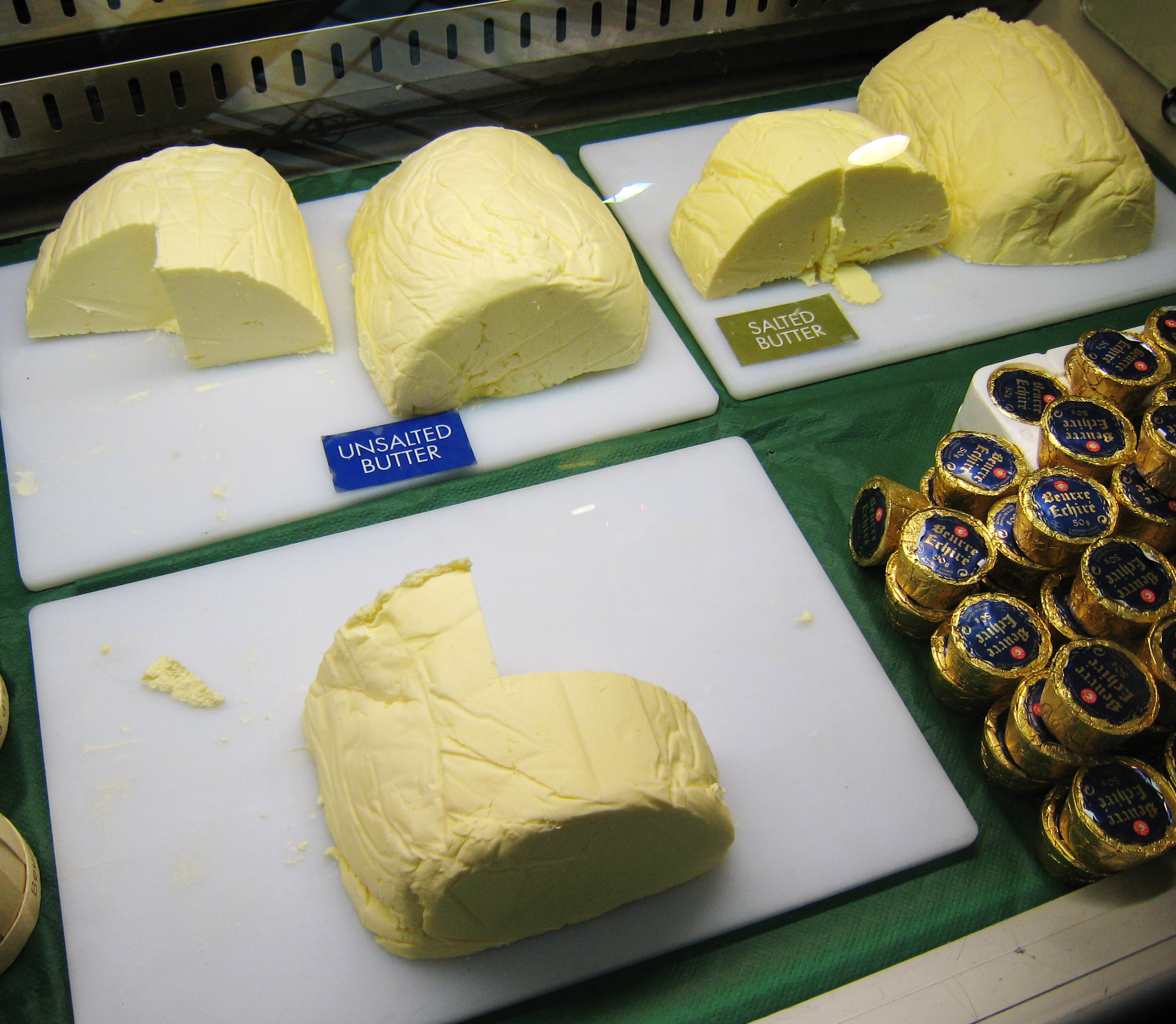 Butter, at the Borough Market, London, 2006.